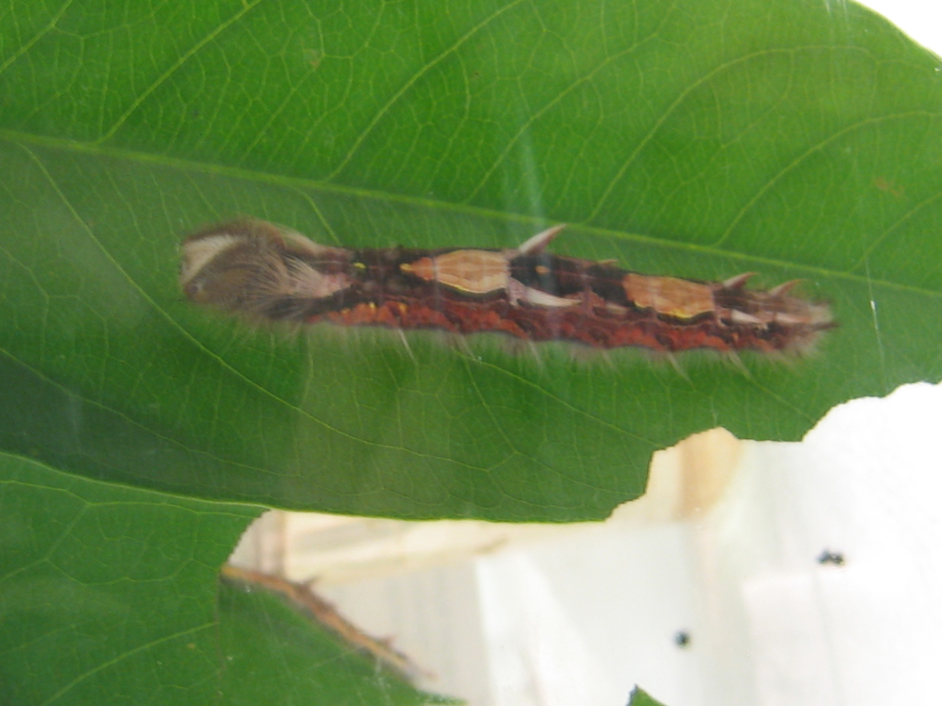 Caterpillar of the butterly species Morpho peleides.